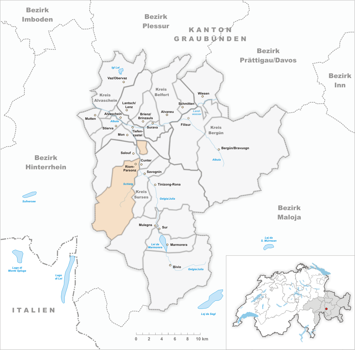 Municipality Riom-Parsonz